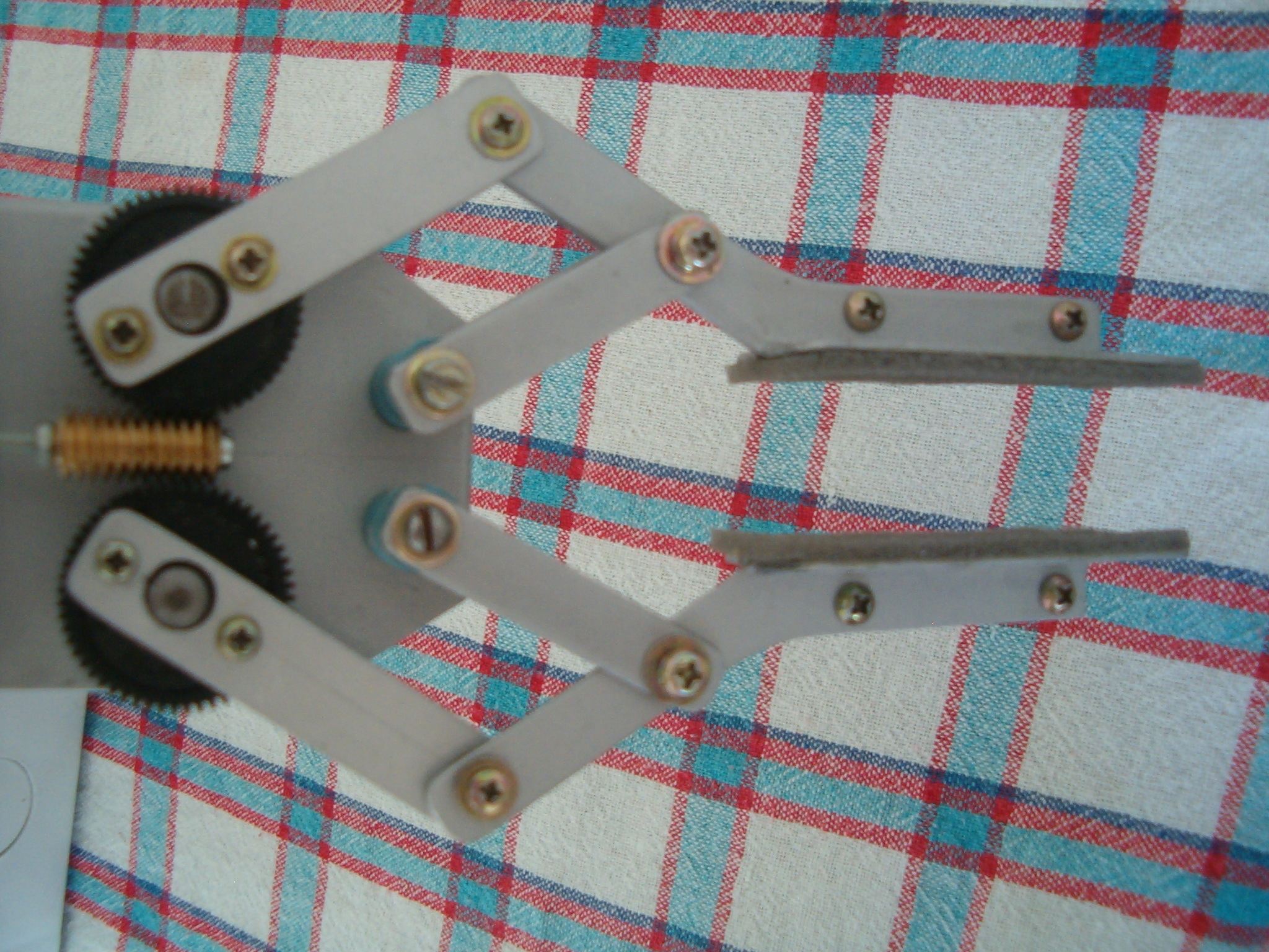 Microp (Microstar Robotic Projects)